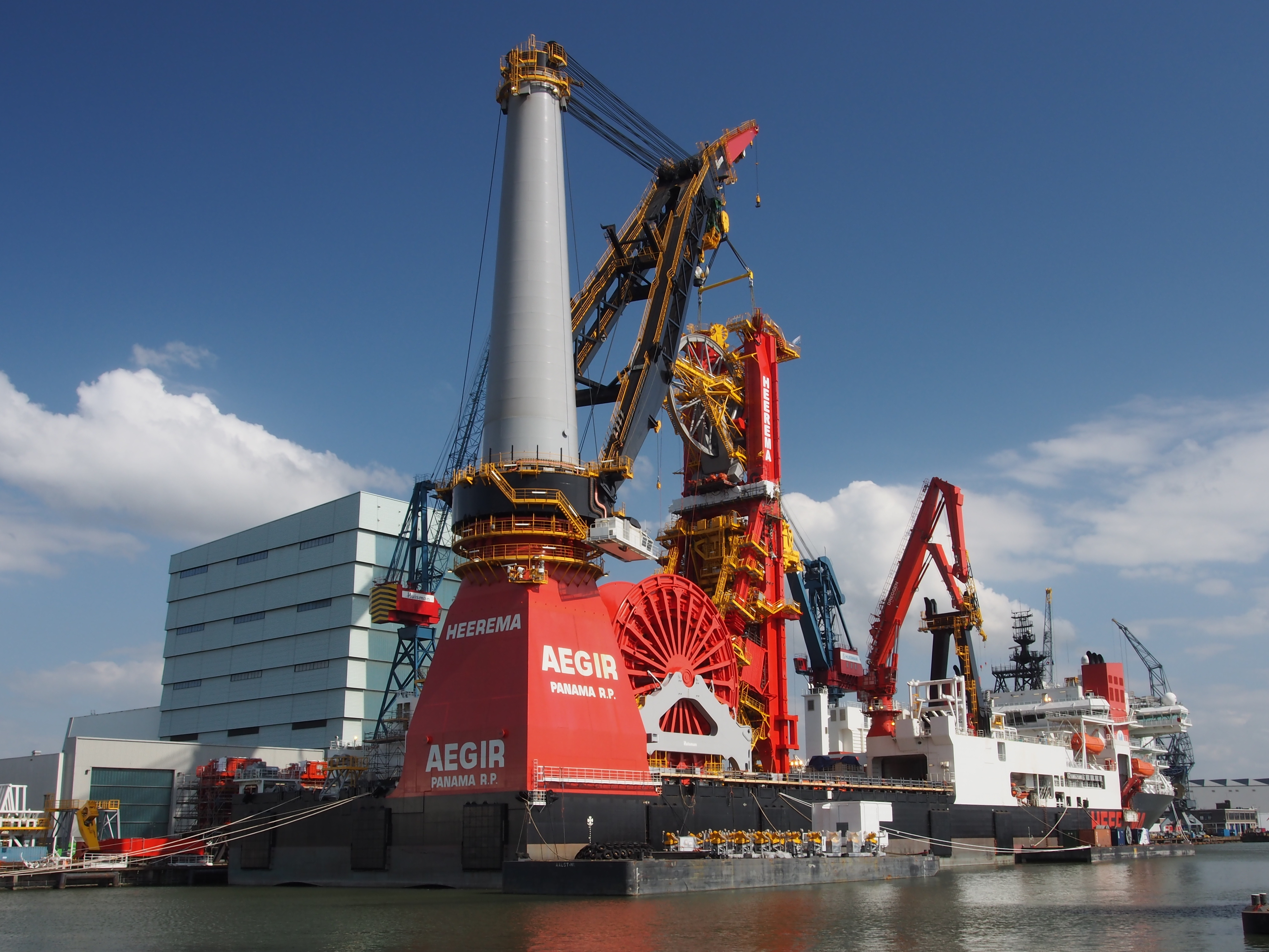 Photographed at or near the Port of Rotterdam.